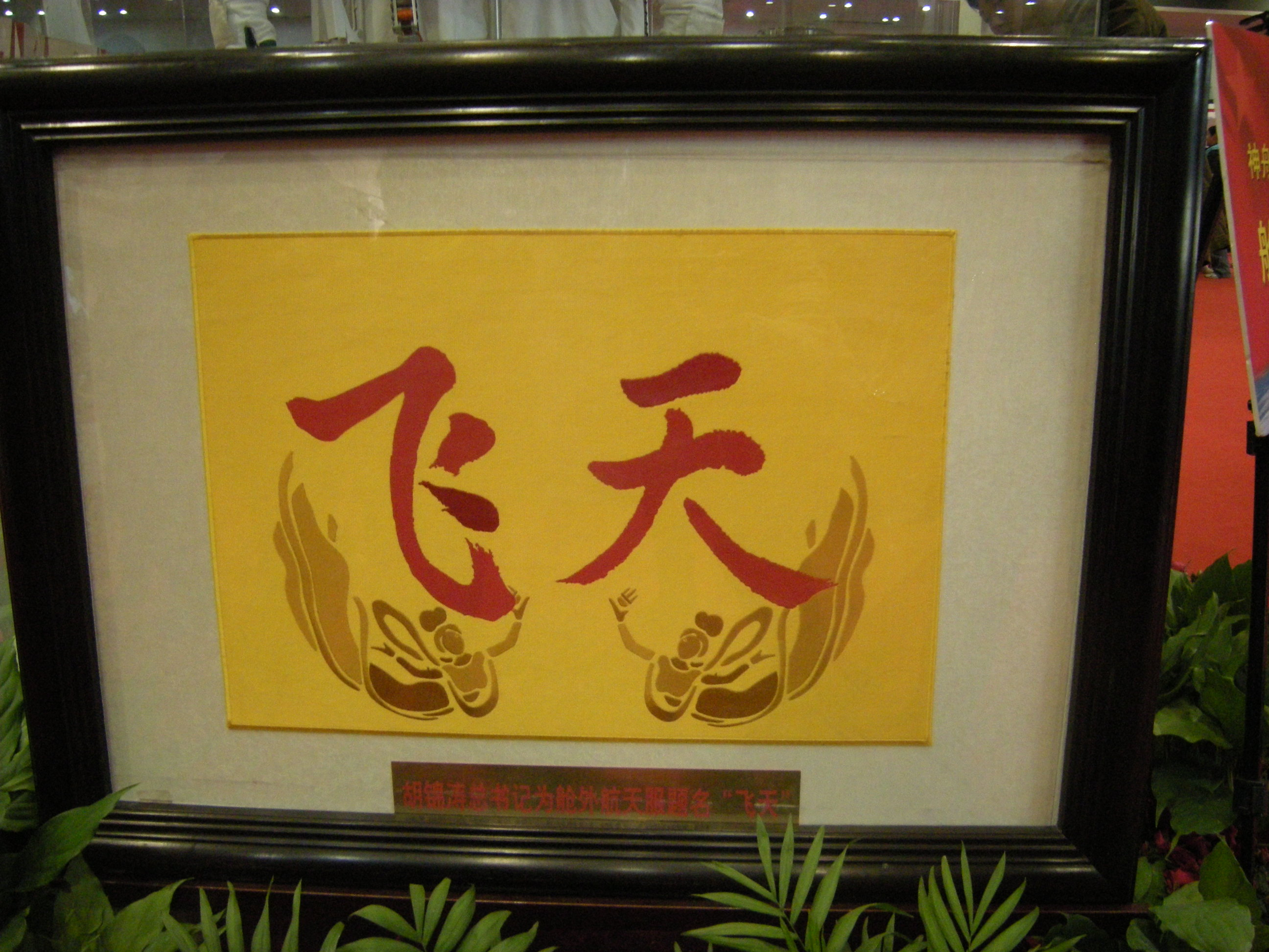 Hu Jintao wrote “飞天”for the Shenzhou 7 spacesuit name